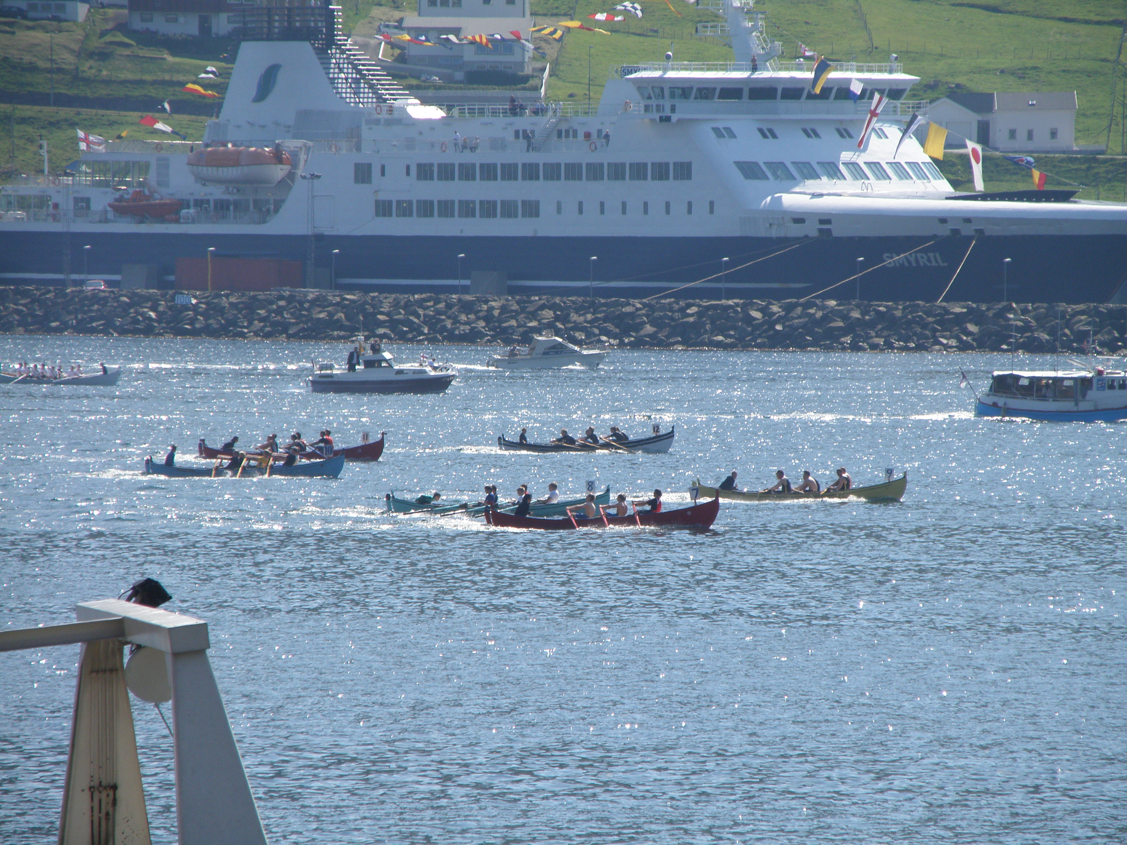 Rowing competitions are held around the islands in the Faroe Islands each summer, starting in Klaksvík in the end of May or beginning of June and ending with the national holiday Ólavsøka in Tórshavn on 28 July (Ólavsøkuaftan). This photo was taken at Jóansøka, which is the local festival in Suðuroy, it is held every second year in Tvøroyri and every second year in Vágur. This is in Tvøroyri on 27 June 2009. Jóansøka is always held in the last weekend of June (or almost always, there have been a few exceptions). The boats are traditional wooden Faroese rowboats. There can be 6, 8 or 10 rowers in the categories 5-mannafør boys, 5-mannafør girls, 5-mannafør women, 6-mannafør women, 6-mannafør men, 8-mannafør men, 10-mannafør men. Children are also rowing in their own competitions. They row in the smallest boats the so-called 5-mannafør (6 persons rowing and one steering). Sometimes there are also competitions for old-boys and old-girls. In 2010 there were seven summer village festivals with rowing competitions. Information about these is to find on the Faroe Islands Rowing Association's website: Føroyskt: Kappróður á Jóansøku 27. juni 2009. 5-mannafør dreingir rógva kapp. Smyril sæst aftanfyri bátarnar, hann lá á Krambatanga, meðan kappróðurin var.